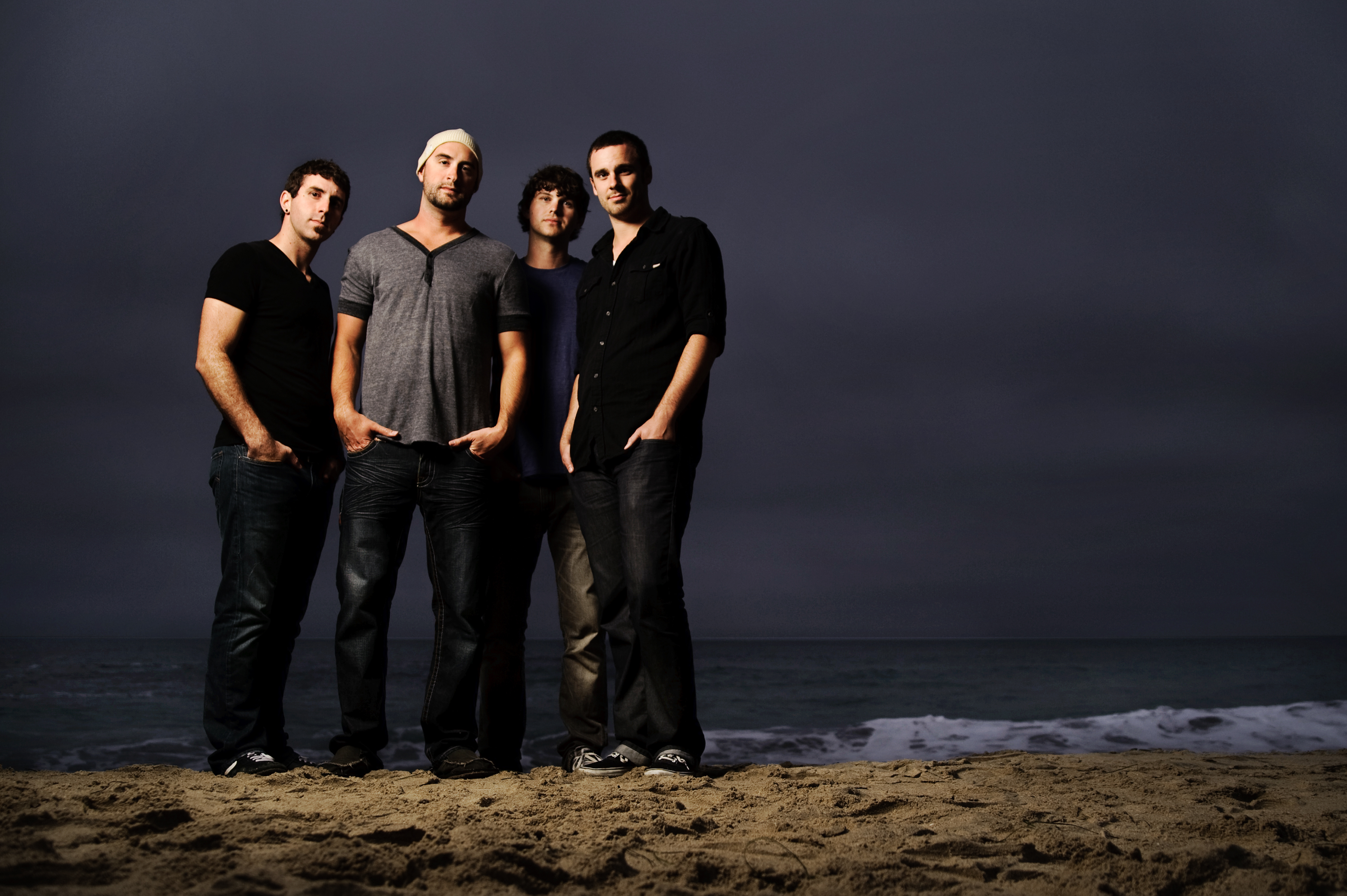 Rootdown Promo Photo